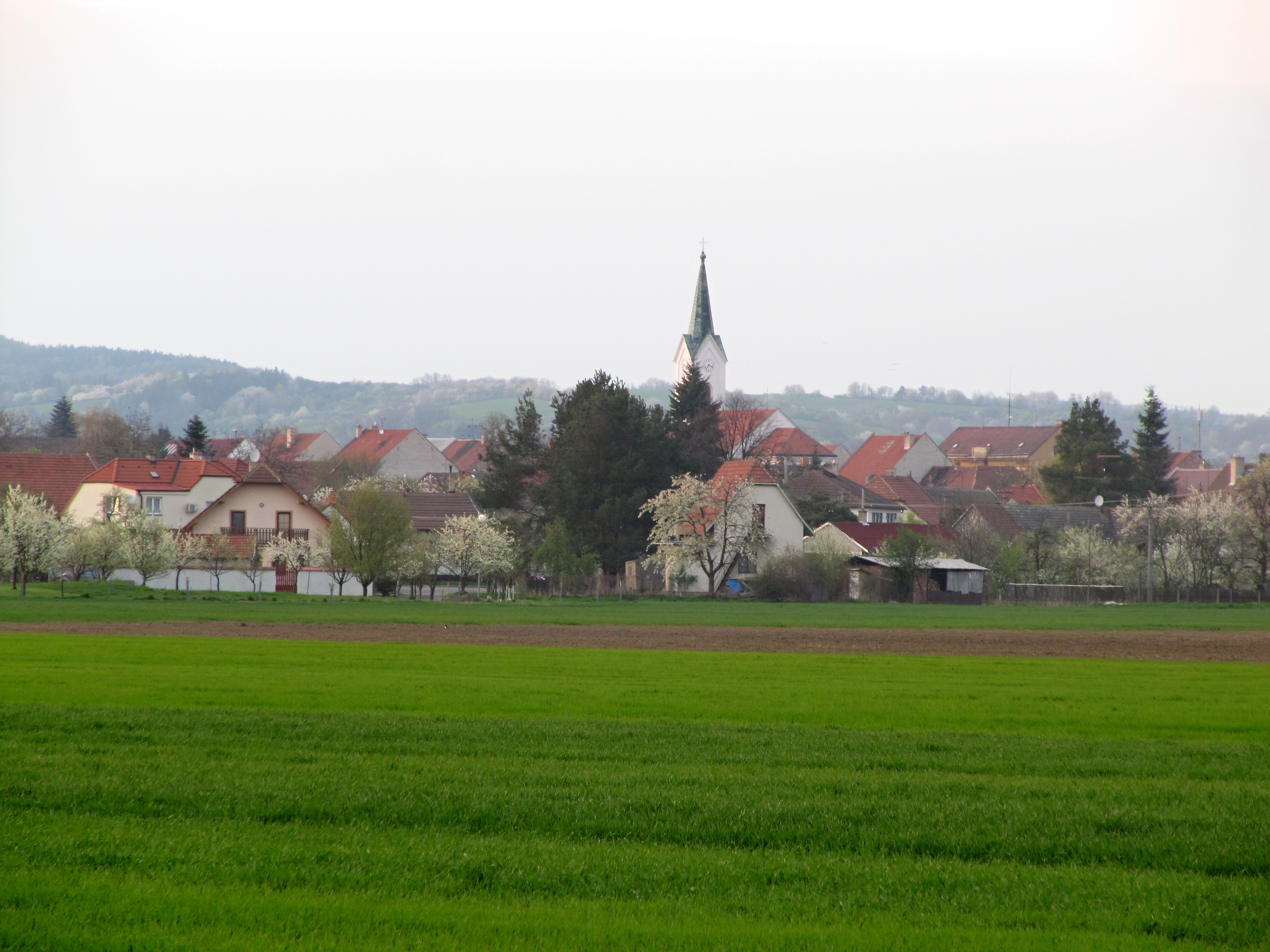 Huštěnovice in Uherské Hradiště District, Czech Republic. General view.